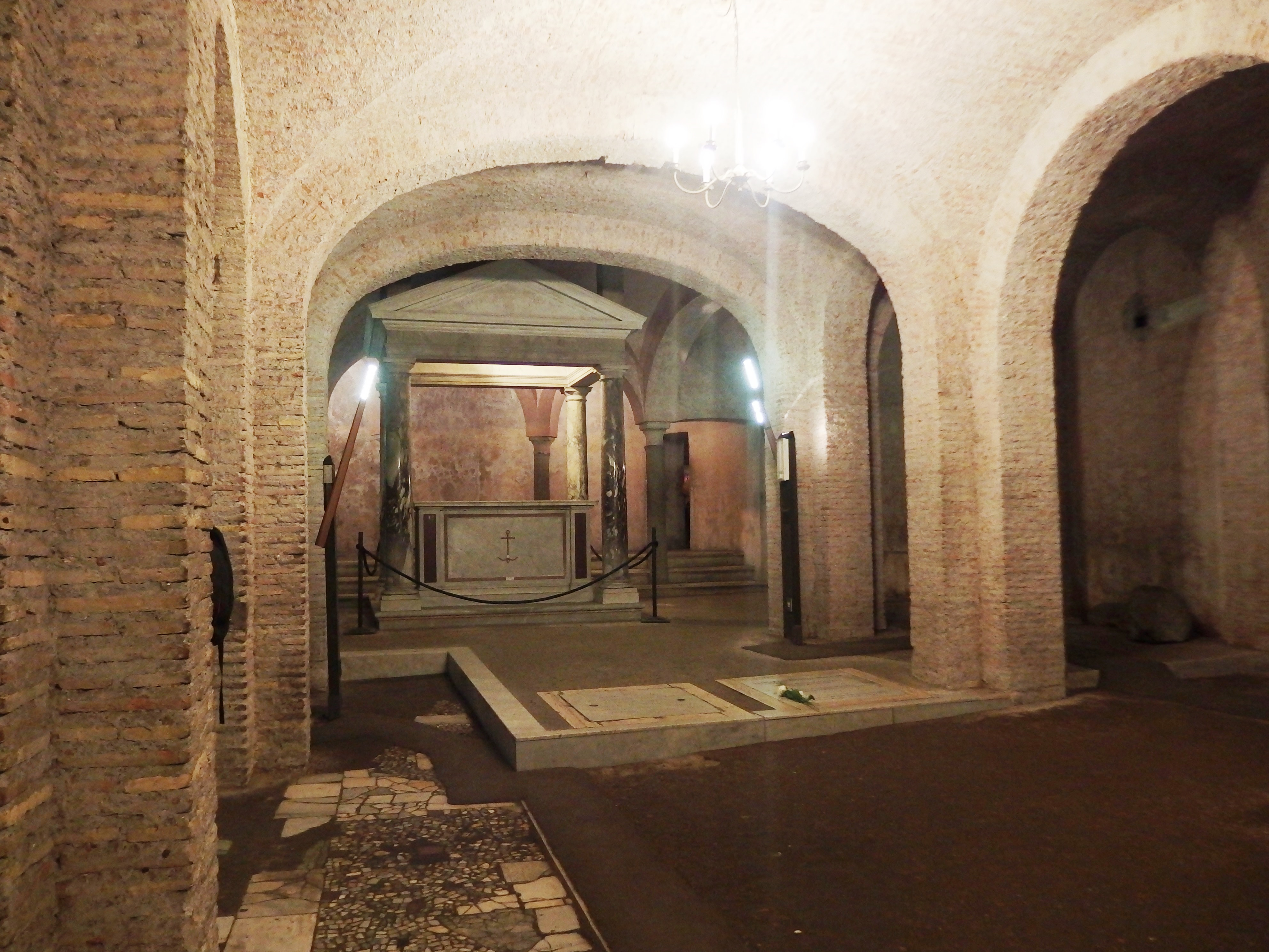 Rome, Italy. Basilica of San Clemente al Laterano. Lower basilica.